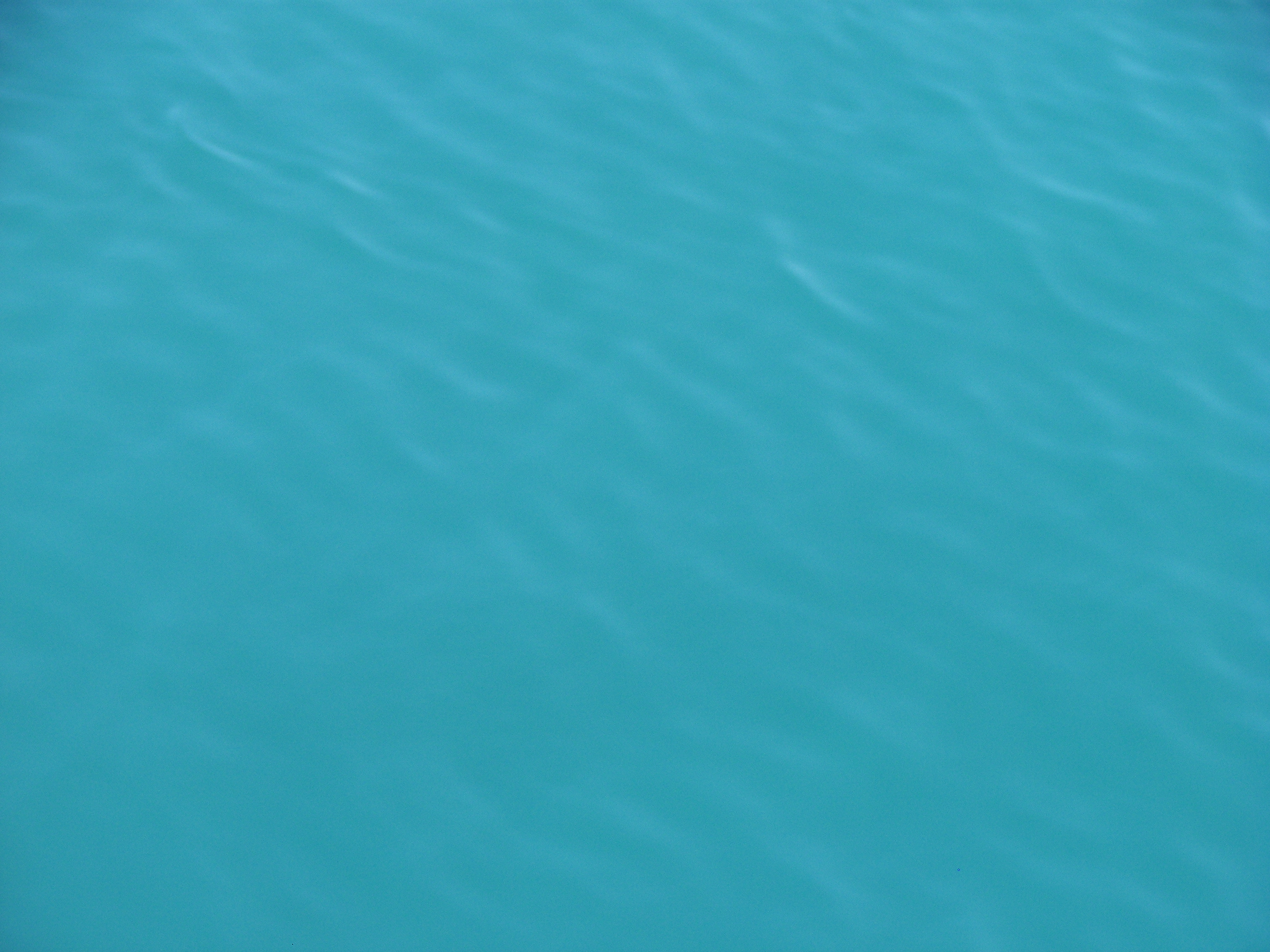 Still water in Tracy Arm, southeast of Juneau, Alaska.